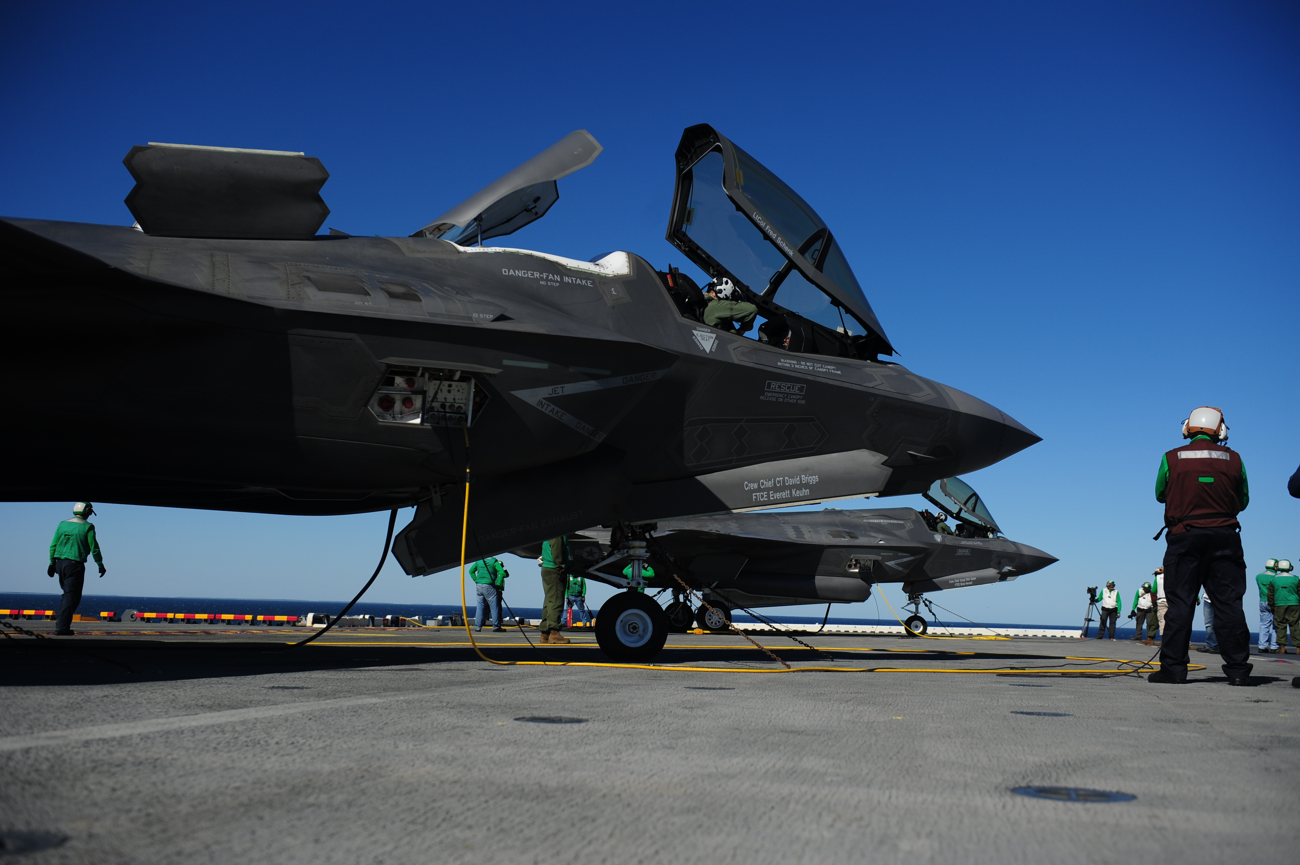 ATLANTIC OCEAN (Oct 15, 2011) BF-02, front, and BF-04, two Marine Corps variants of the F-35B Lighting II Joint Strike Fighter, are secured on the flight deck of the amphibious assault ship USS Wasp (LHD 1) during sea trials. The F-35B is capable of short takeoffs and vertical landings for use on amphibious ships or expeditionary airfields to provide air power to the Marine Air Ground Task Force. (U.S. Navy photo/Released)